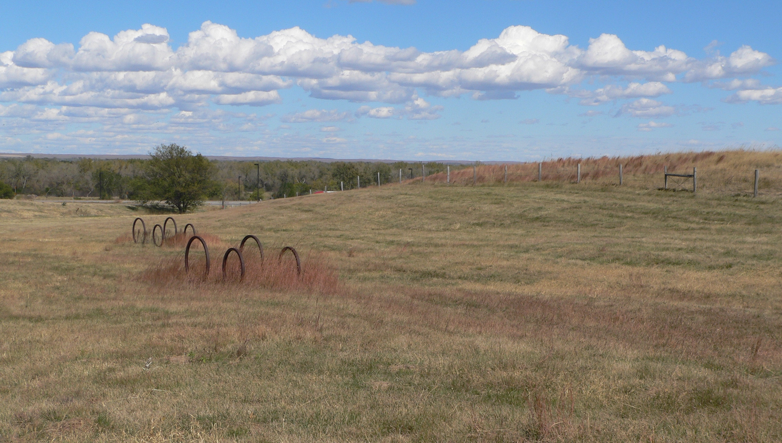 View from O'Fallon's Bluff, southeast of Sutherland, Nebraska; looking northeast. The sets of wheels mark ruts left by 19th-century pioneers crossing the bluff.